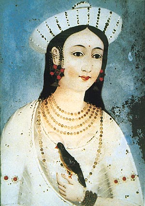 An artist's impression of Mastani. Mastani, popularly known as Bajirao Mastani (died 1740) was the mistress of Baji Rao Peshwa (Baji Rao I) (1699-1740), an Indian general and prime minister to the fourth Maratha Chhatrapati (Emperor) Shahuji. She is said to have been one of the most beautiful women in the history of India.